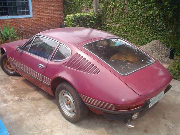 Lateral/rear view of the (possibly) last Volkswagen SP2 produced, belonging to a friend of mine. Picture taken by him and sent to me in 2006-11-26. The vents after the rear window provide ventilation for the engine.